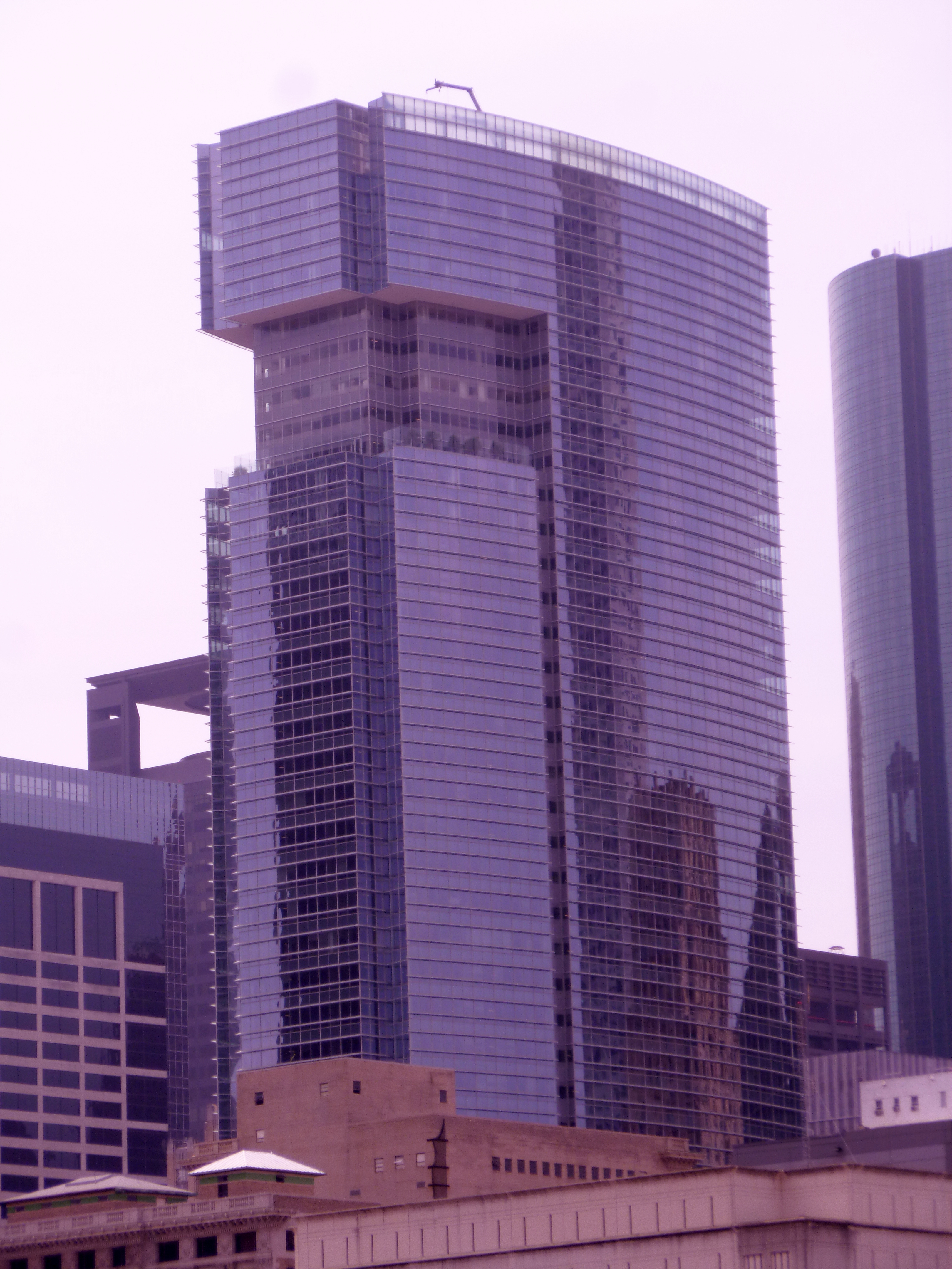 Completed facade of a building in Houston, Texas.